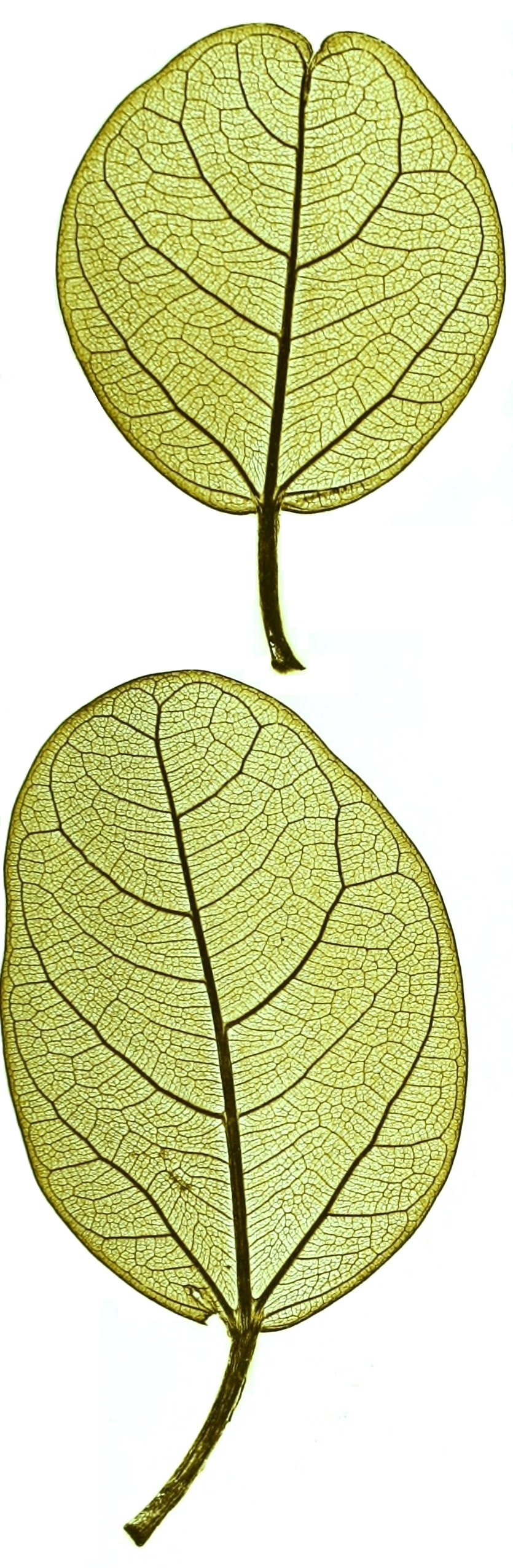 Title: Denkschriften der Kaiserlichen Akademie der Wissenschaften / Mathematisch-Naturwissenschaftliche Classe Year: 1858 (1850s) Authors: Kaiserl. Akademie der Wissenschaften in Wien. Mathematisch-Naturwissenschaftliche Klasse Subjects: Mathematics; Science Publisher: Wien : Aus der Kaiserlich-Königlichen Hof- und Staatsdruckerei Text Appearing Before Image: C. v. Ettingshausen. Die Blattskelete der Apetalen. Taf. XV. Text Appearing After Image: Fig. 1 u. 2. Ficus henghalensis L. Fig. 3. Ficus capensis Thunbg. Fig. 4—6. Ficus pumila L. Fig. 7. Ficus sp. Ostind. Fig. 8. Ficus americana Aubl. Fig. 9 u. 10. Ficus cestrifolia Schott. Denkschriften der mathem.-naturw. Cl. XV. Bd. 1858. Naturselbstdruck aus der k. k. Hoff- und Staatsdruckerei